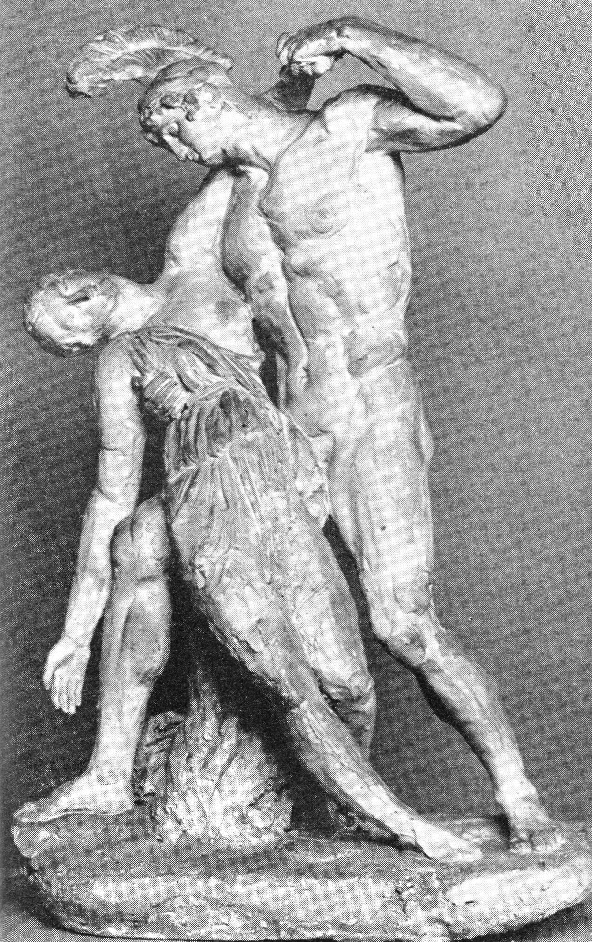 Achilles and Petheslilea. Plaster-figure. Thorvaldsens Museum